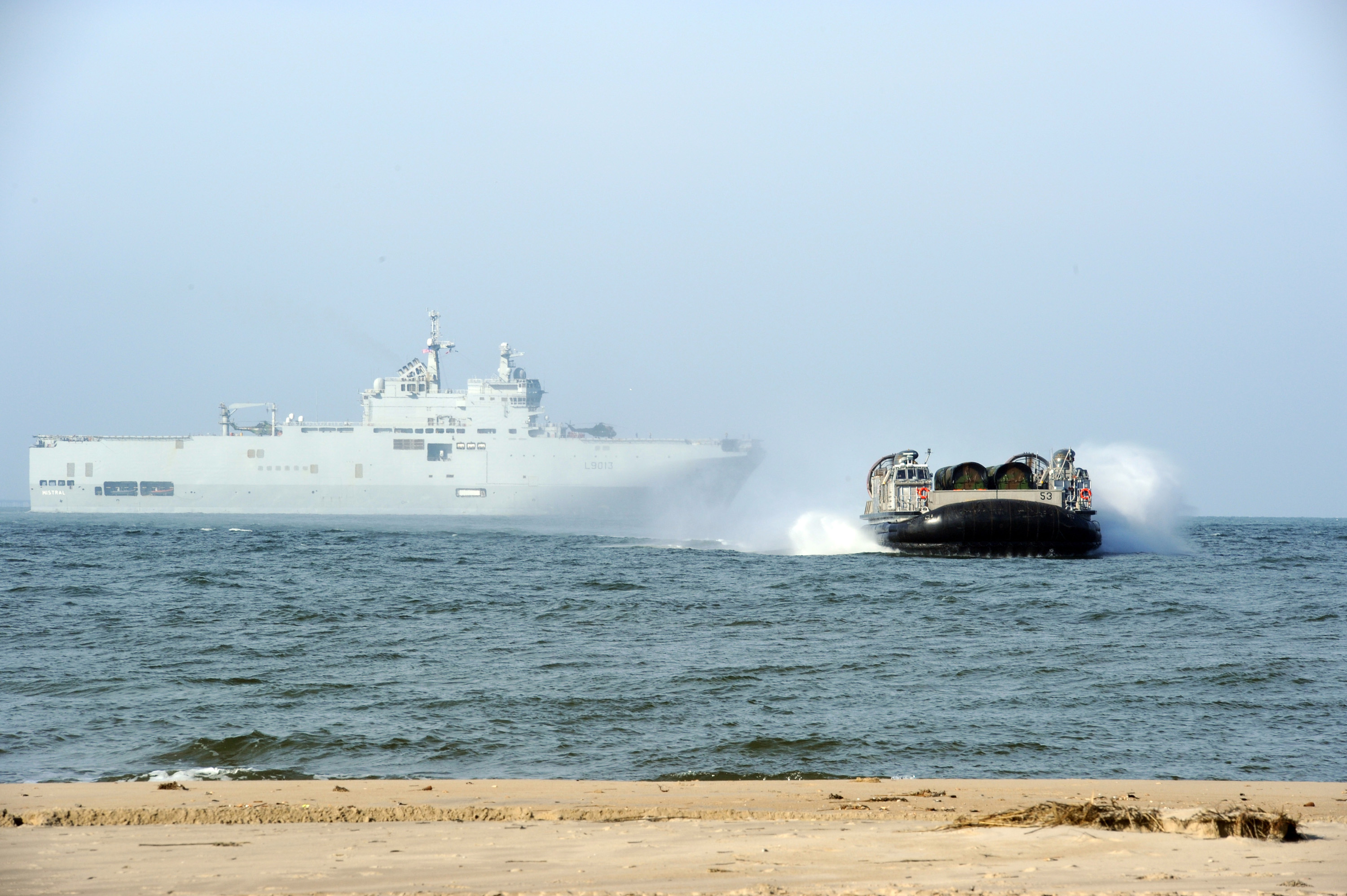 VIRGINIA BEACH, Va. (Jan. 25, 2012) Landing Craft Air-Cushioned (LCAC) 53 speeds from the French projection and command ship FS Mistral (L9013) to the shoreline during an well deck certification. Mistral will participate in Exercise Bold Alligator 2012, the largest naval amphibious exercise in the past 10 years. The exercise will take place Jan. 30 through Feb. 12. (U.S. Navy photo by Mass Communication Specialist 3rd Class Michael M. Scichilone/Released)